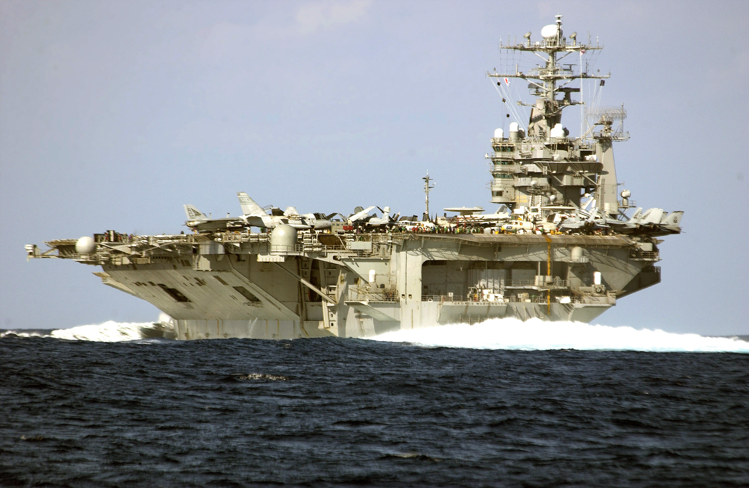 Atlantic Ocean (Dec. 9, 2003) -- The Norfolk, Va. based nuclear powered aircraft carrier USS George Washington (CVN 73) underway while conducting Composite Training Unit Exercises (COMPTUEX) in preparation for their upcoming six-month deployment. U. S. Navy photo by Photographer’s Mate 1st Class Brien Aho. (RELEASED)